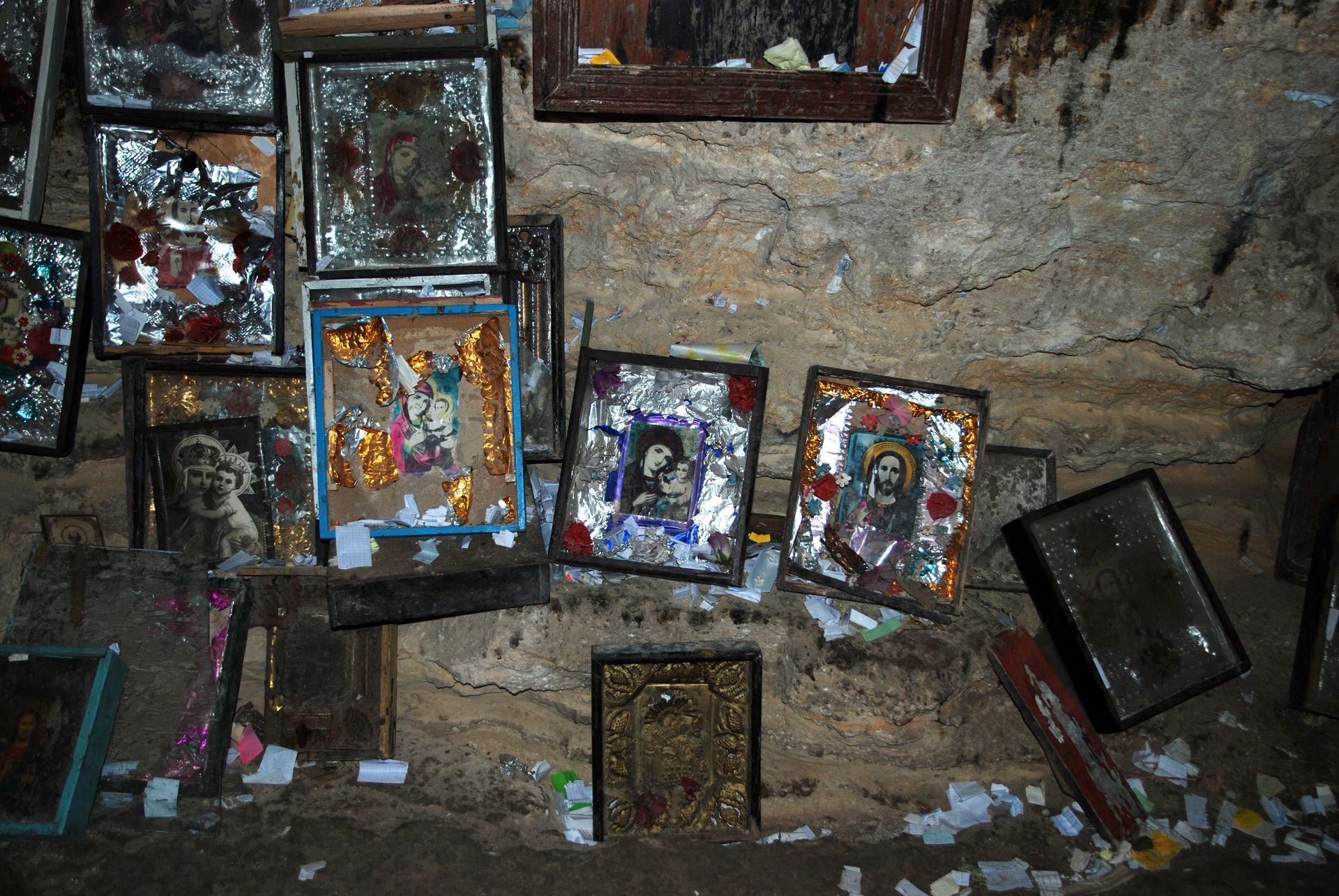 Saharna Monastery, cave